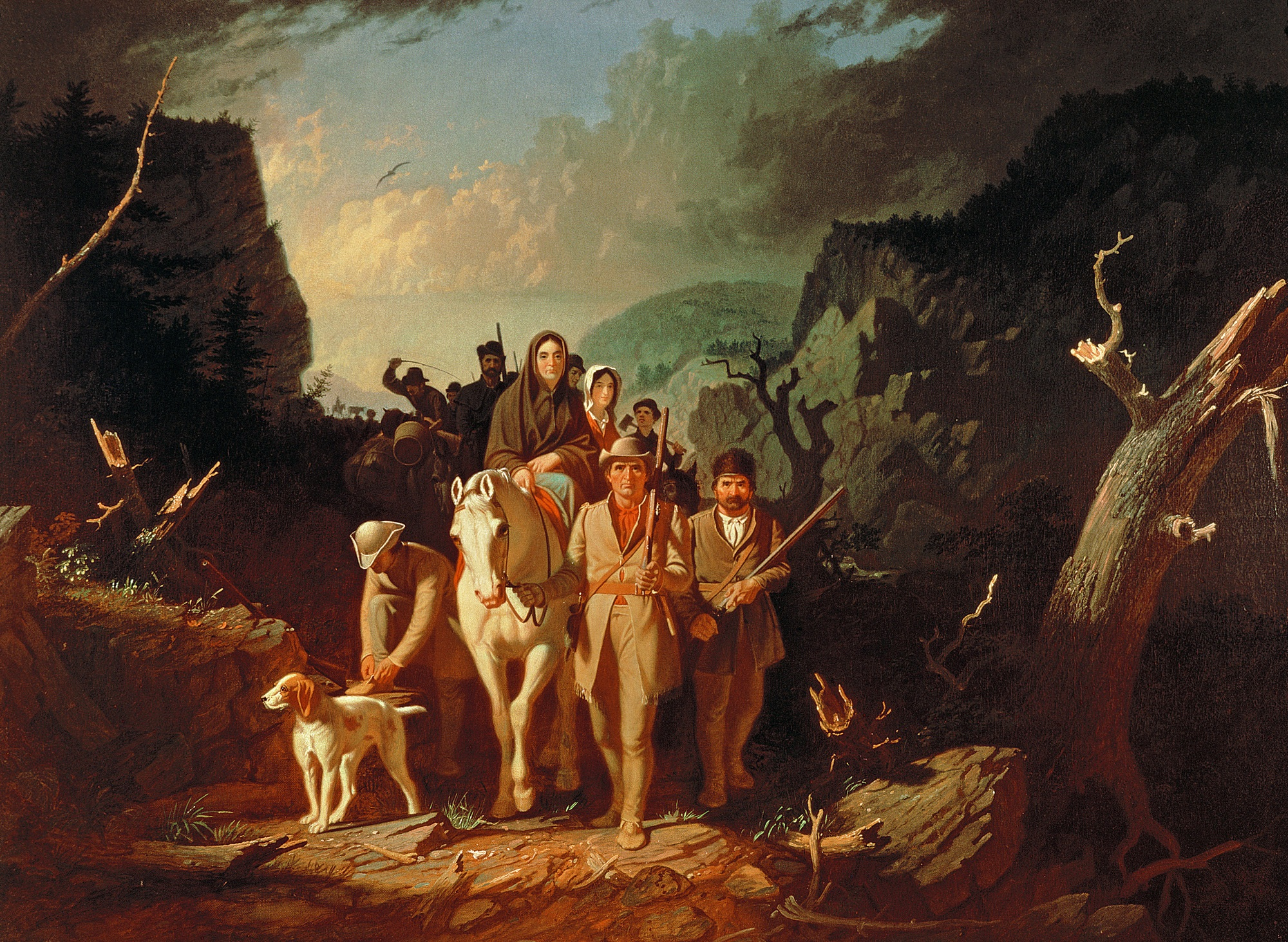 Daniel (1734-1820) and his wife Rebecca travelling westwards to Kentucky